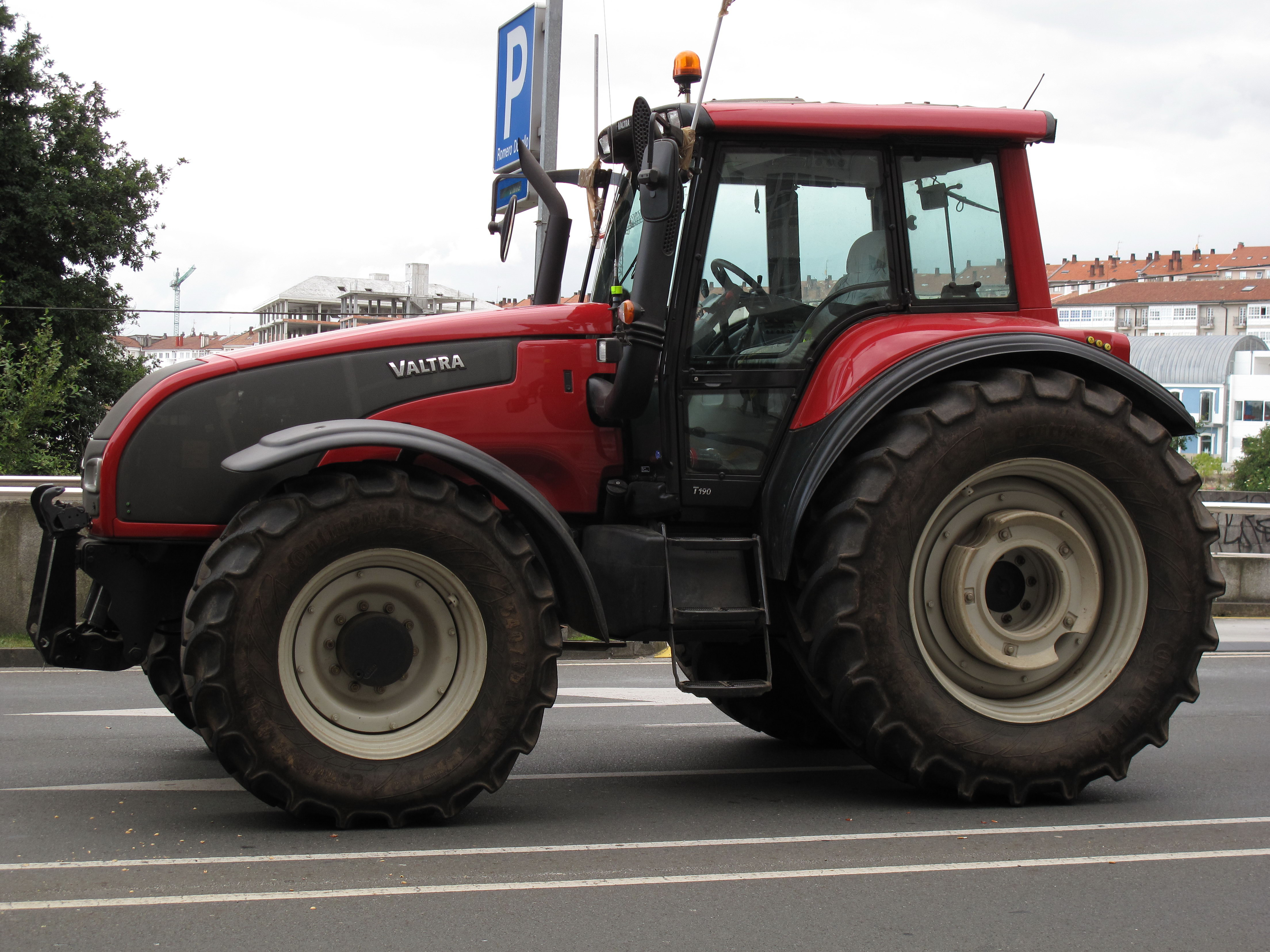 Valtra T190 tractor on a demonstration of dairy farmers in Santiago de Compostela, Galicia, Spain